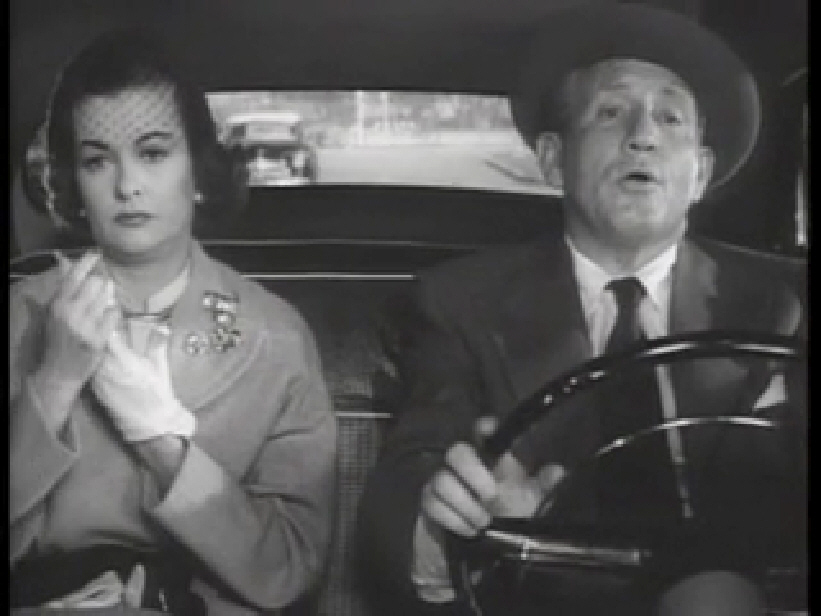 Spencer Tracy & Joan Bennett in Father's Little Dividend (cropped screenshot)